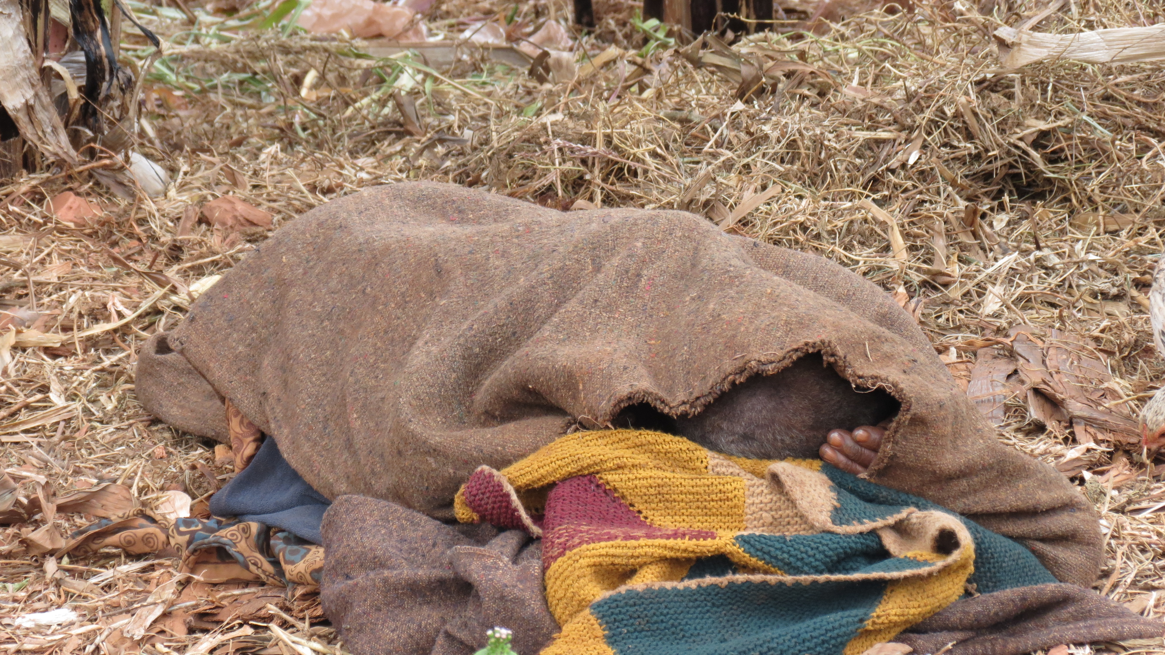 This is an image of "African people at work" from Burundi